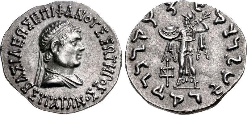 Strato I bareheaded